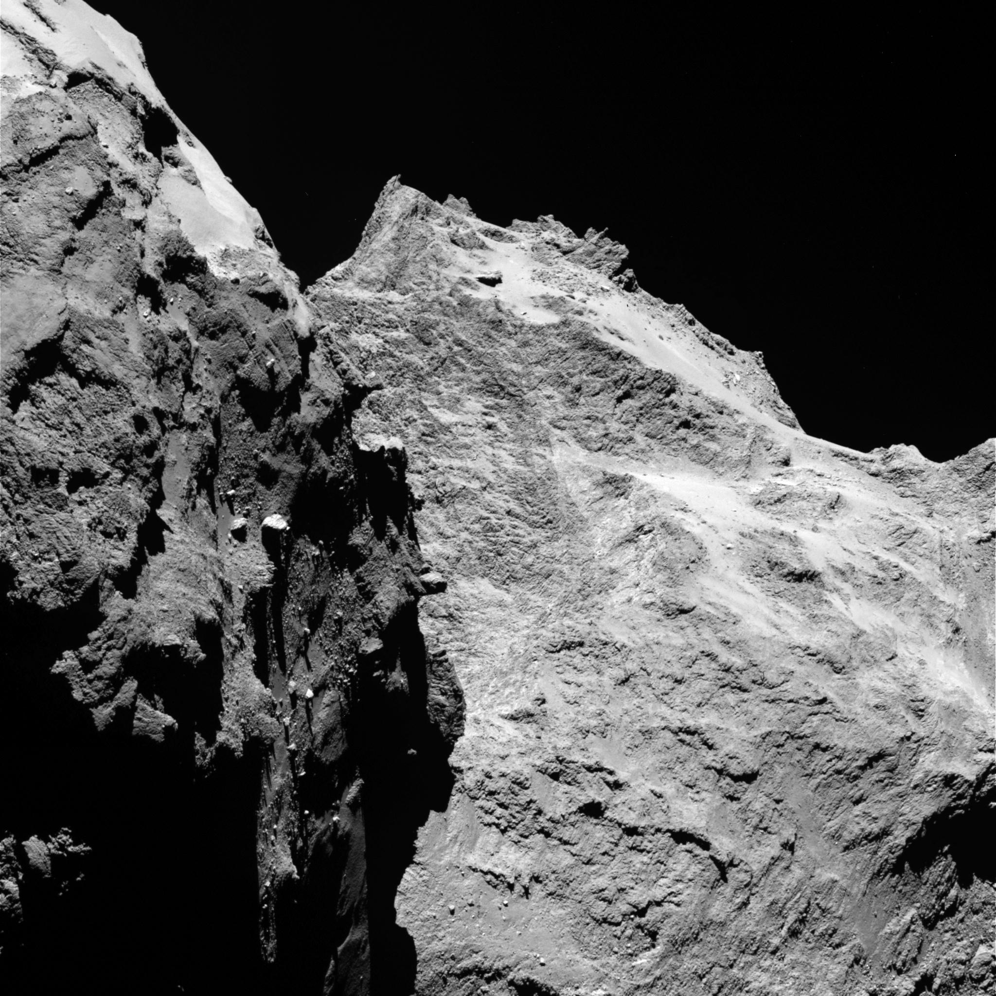 Jagged cliffs and prominent boulders are visible in this image taken by OSIRIS, Rosetta’s scientific imaging system, on 5 September 2014 from a distance of 62 kilometres from comet 67P/Churyumov-Gerasimenko. The left part of the image shows a side view of the comet’s 'body', while the right is the back of its 'head'. One pixel corresponds to 1.1 metres. Credits: ESA/Rosetta/MPS for OSIRIS Team MPS/UPD/LAM/IAA/SSO/INTA/UPM/DASP/IDA